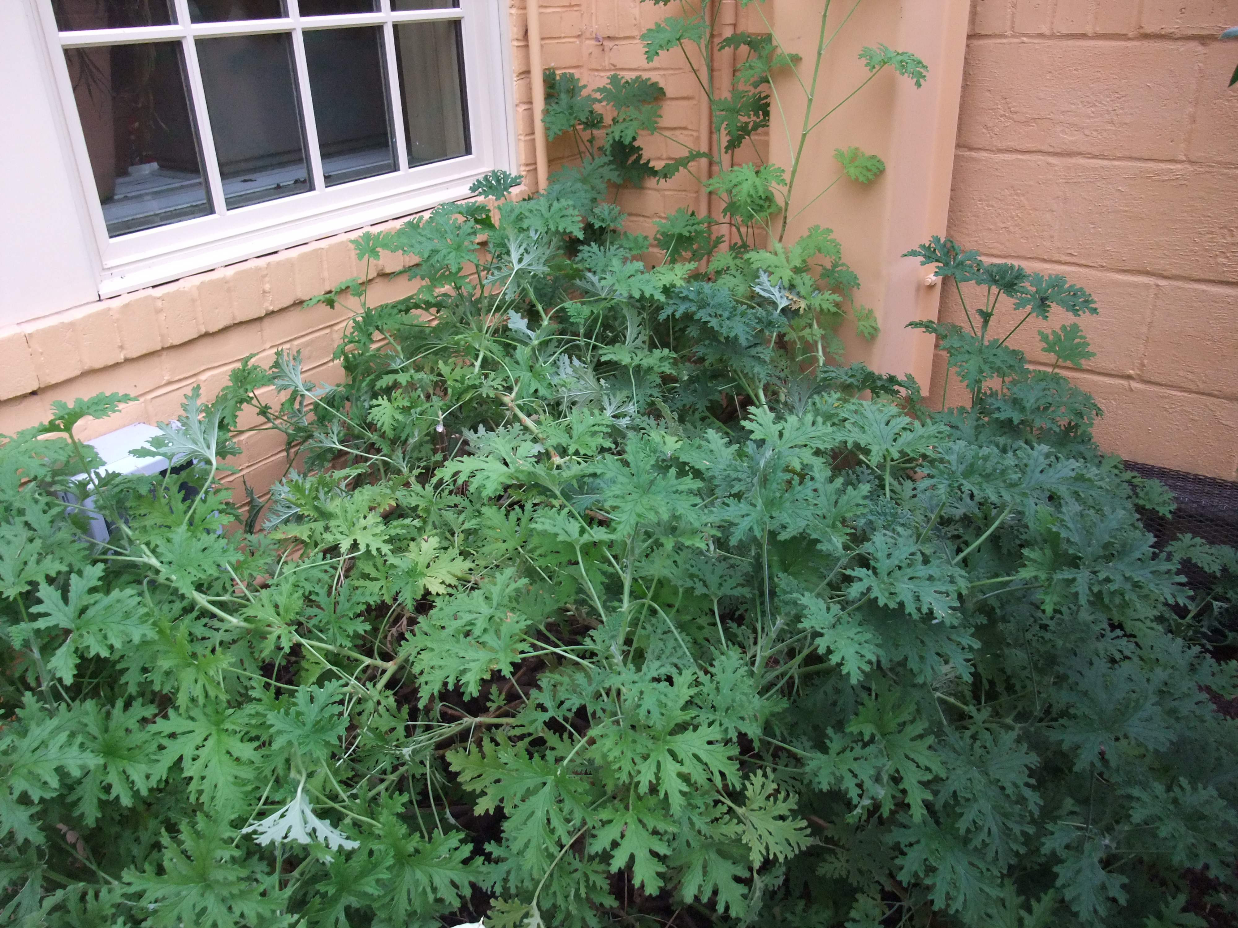 A photograph of Pelargonium 'citrosum'